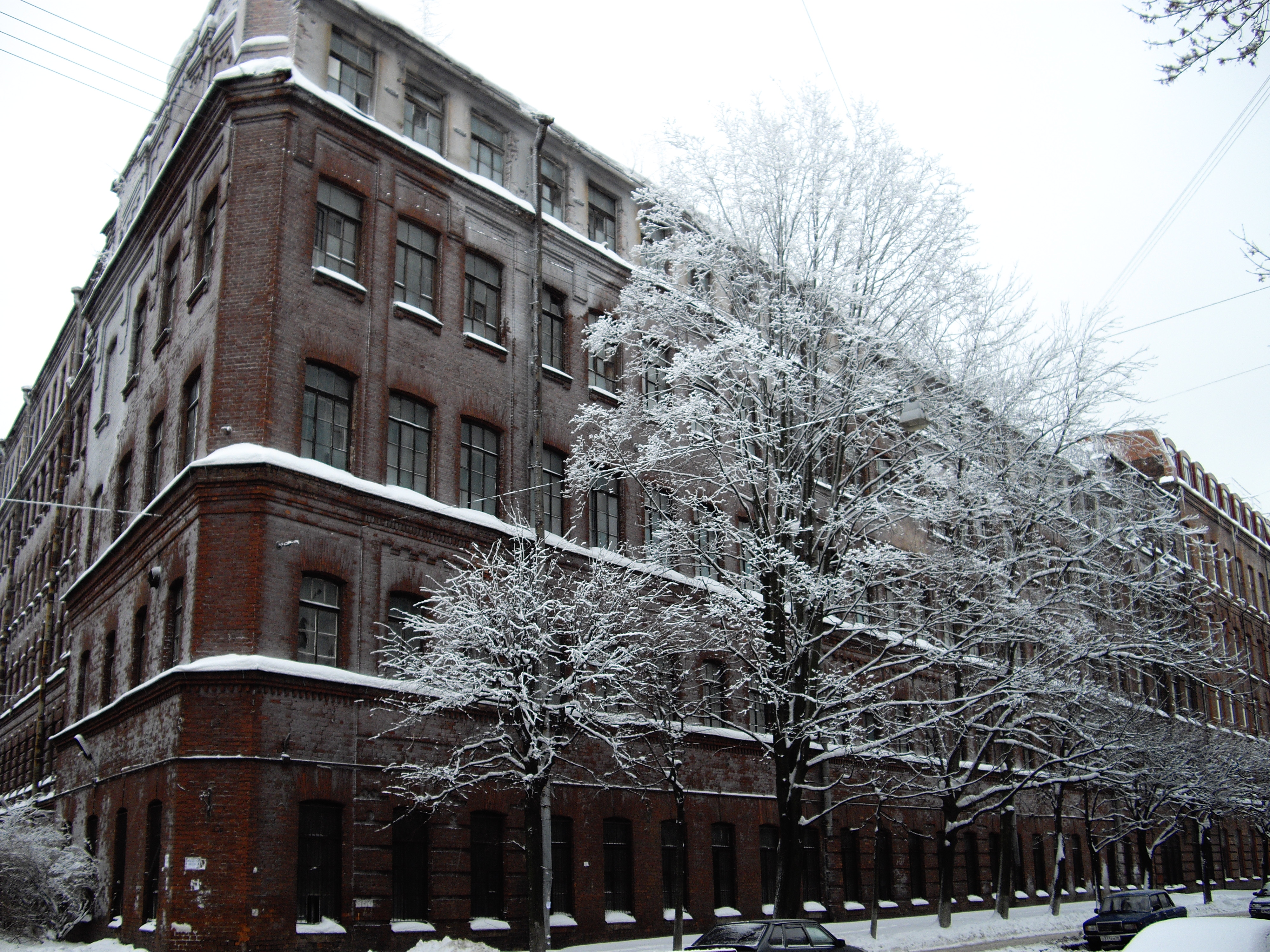 Krasnoe Znamya (Red Banner) factory in Saint-Petersburg, Russia. Main production facilities building (1895-1910s)